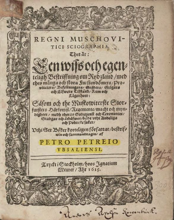 Peter Petreius, Regni Muschovitici sciographia. Thet är: Een wiss och egenteligh beskriffning om Rydzland, med thes många och stora furstendömers, provinciers, befestningars, städers, siögars och elfwers tilstånd, rum och lägenheet: såsom och the muskowiterske storfursters härkomst, regemente, macht och myndigheet, medh theras gudztienst och ceremonier, stadgar och åthäfwor, både vthi andeliga och politiske saker, vthi sex böker korteligen författat, beskrifwin och sammandragin (Stockholm, 1615)